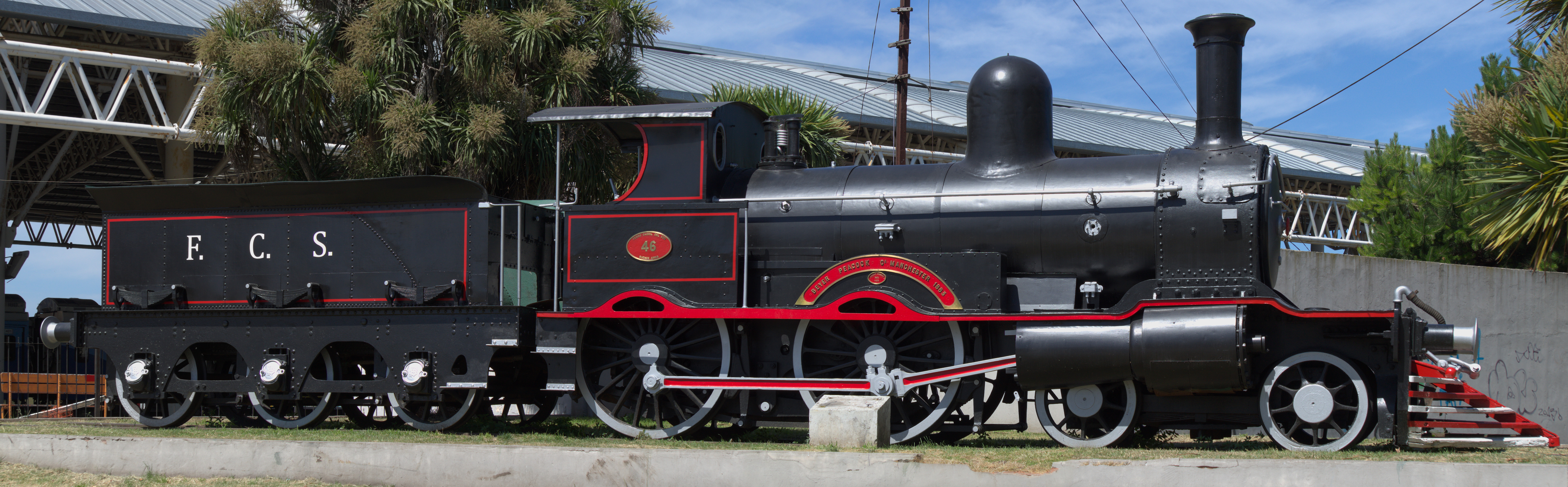 Locomotive 46, manufactured in 1883 by Beyer, Peacock for the Ferrocarril del Sud (Buenos Aires Great Southern Railway), which after nationalisation became the state-owned Ferrocarril General Roca (General Roca Railway). It is displayed outside the bus and rail terminal next to the former Mar del Plata railway station, Buenos Aires Province, Argentina. It was the first locomotive to arrive at the railway station in 1886.